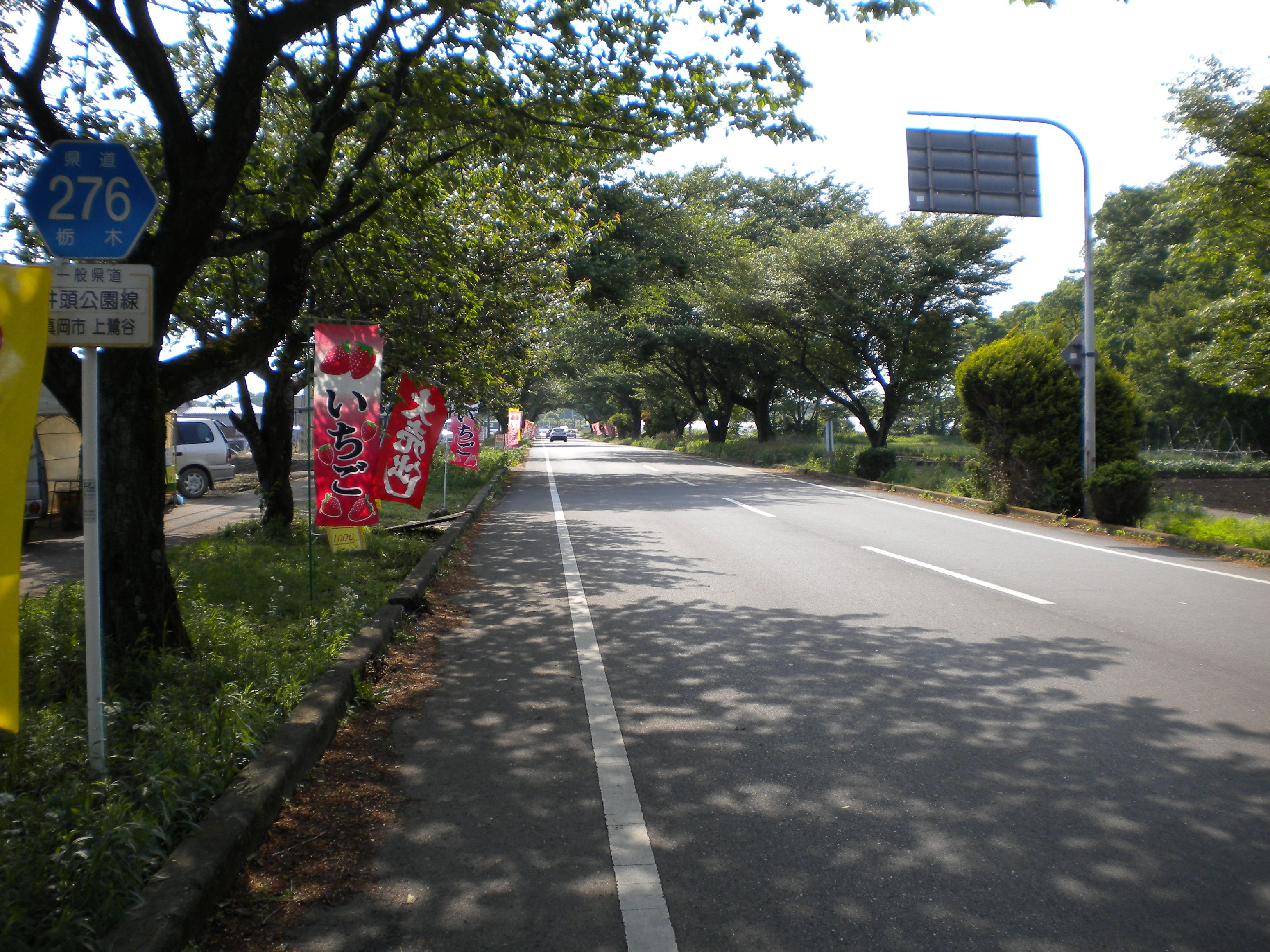 Tochigi prefectural road No.276 on Moka city